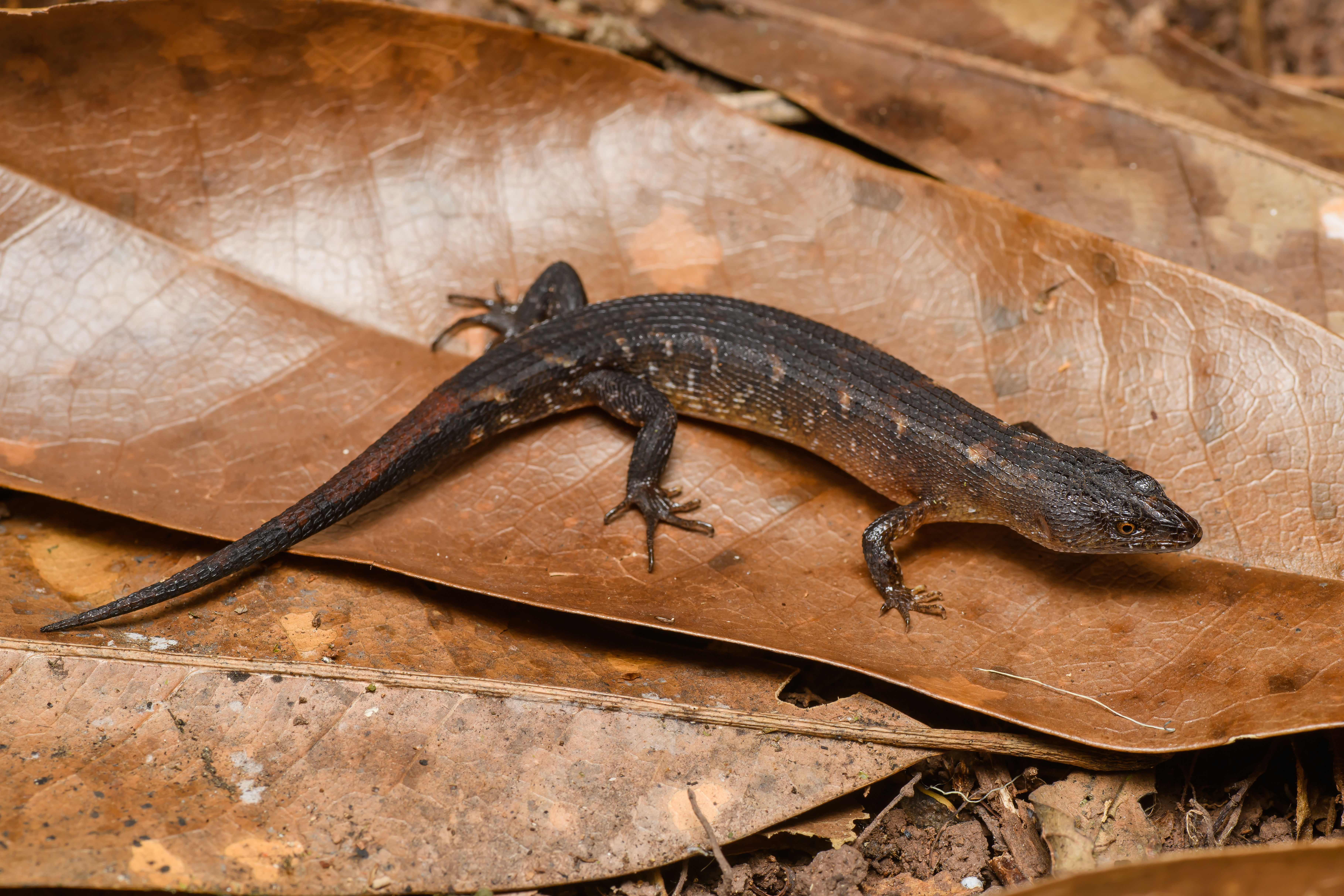 This photo is published under Creative Commons Attribution-Share-Alike Licence, means you are free to use this photo with attribution under same licence. For credits, please use following; Owner: Thai National Parks Link